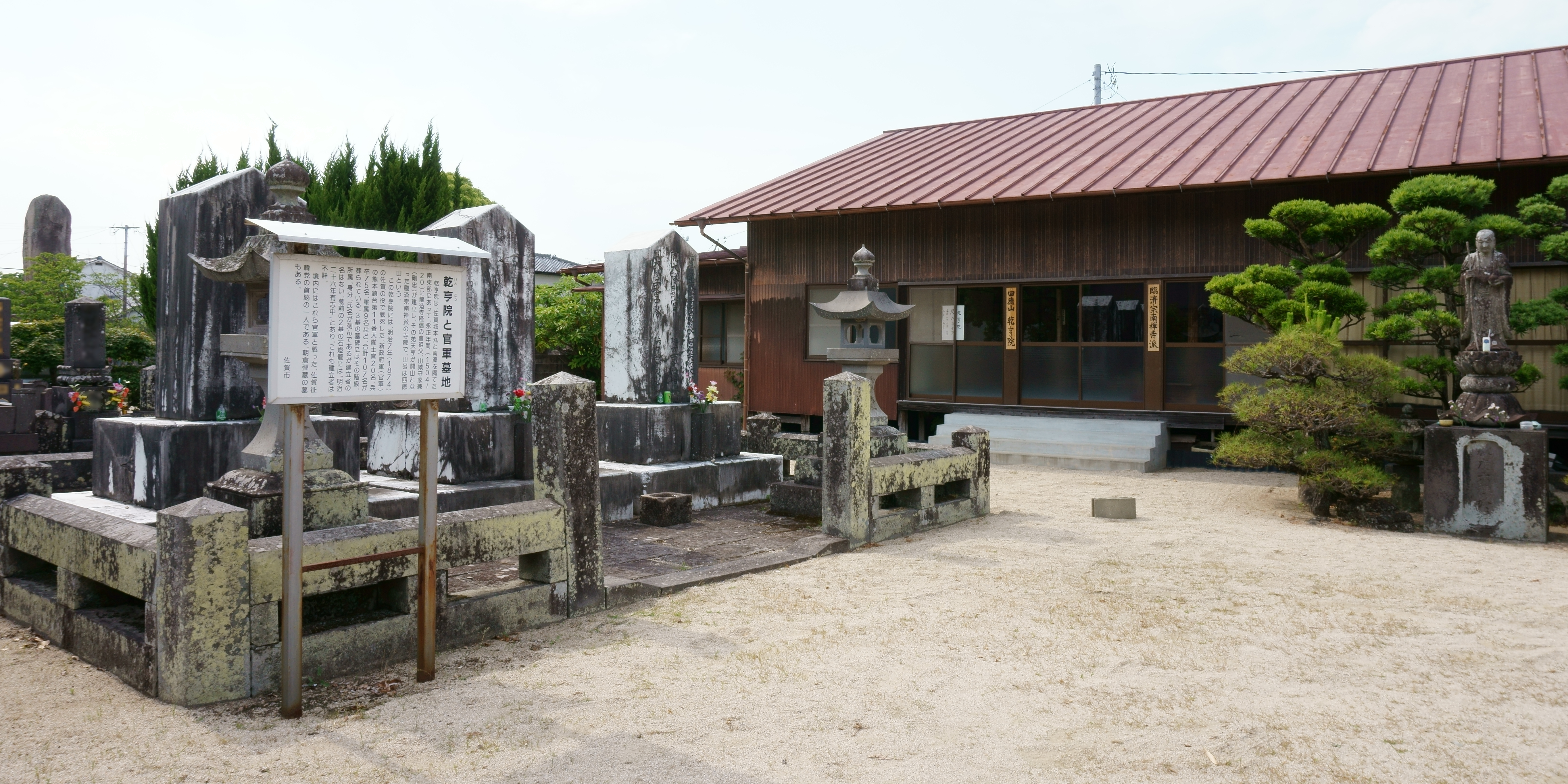 Graves of Japanese Meiji government army in Saga Rebellion in 1874. It is at Kenkōin Temple in Nakanotate-machi, Saga city, Saga prefecture.